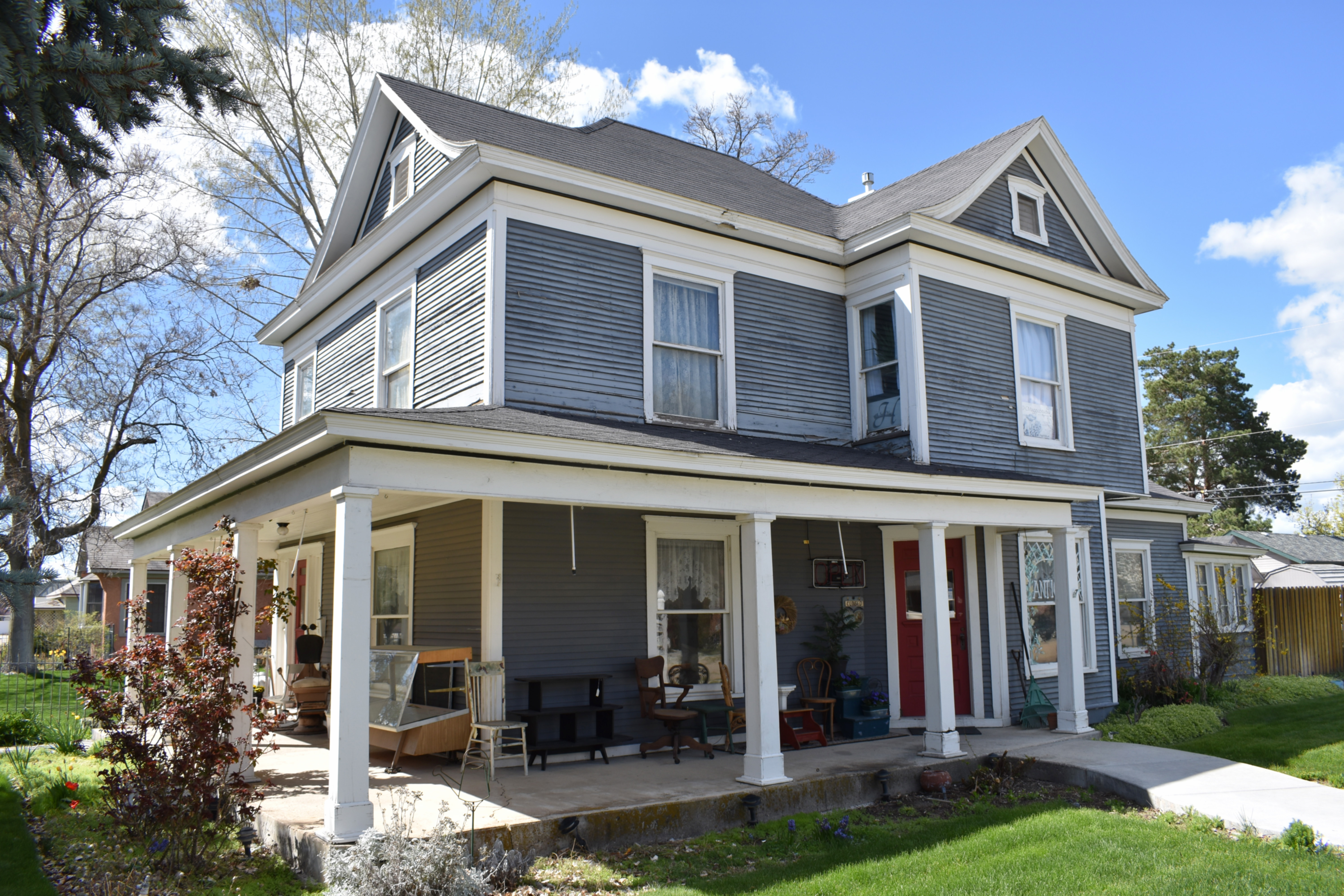 The Tolleth House in Meridian, Idaho, was constructed in 1907 and is listed on the National Register of Historic Places.